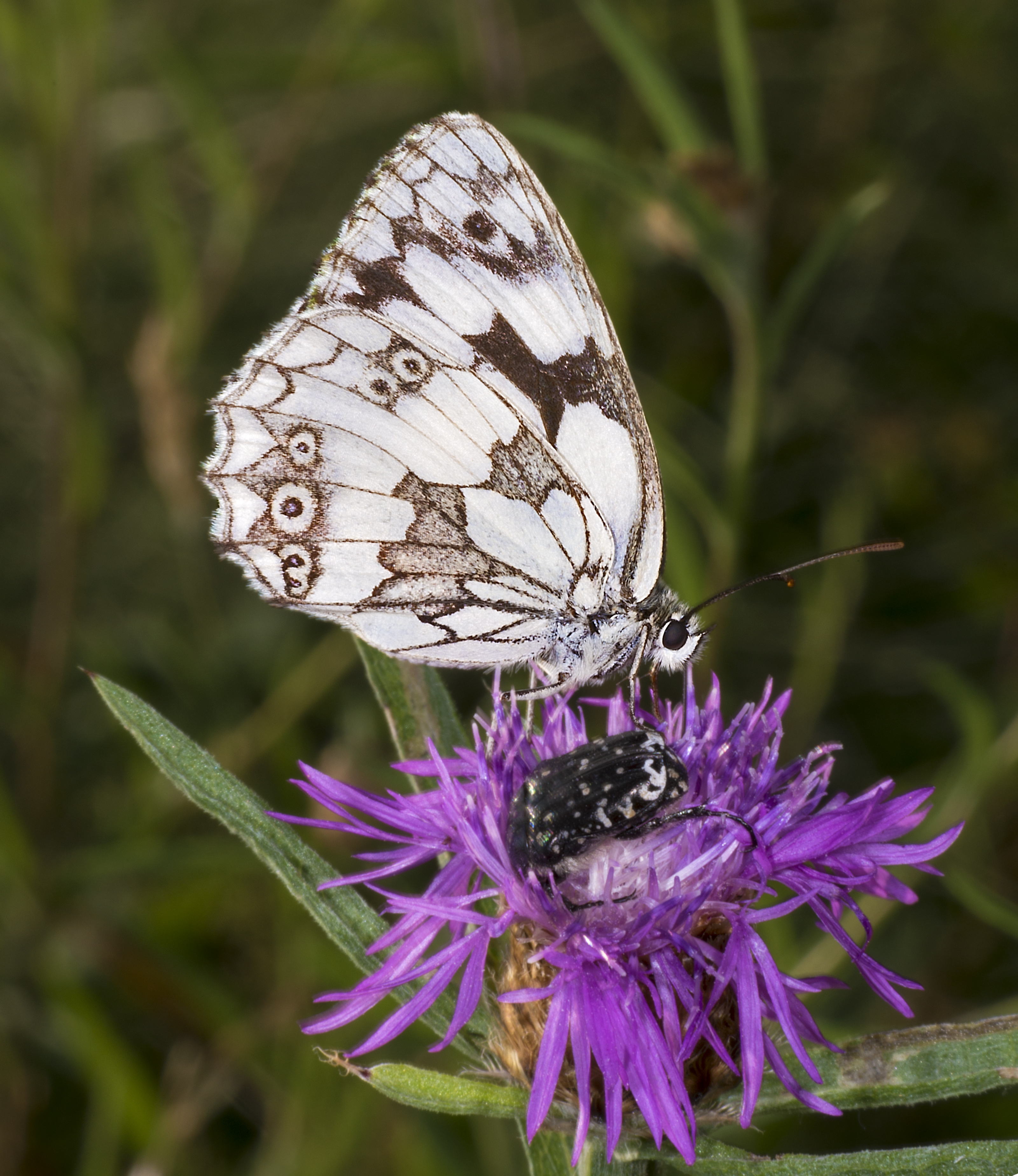 Marbled White